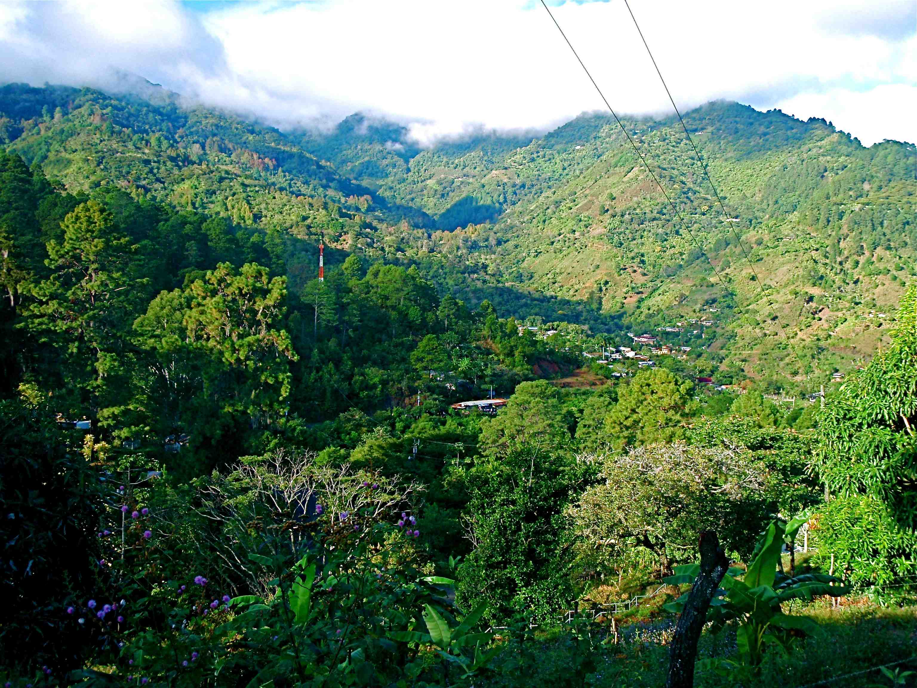 San Juancito, with La Tigra National Park in the background.